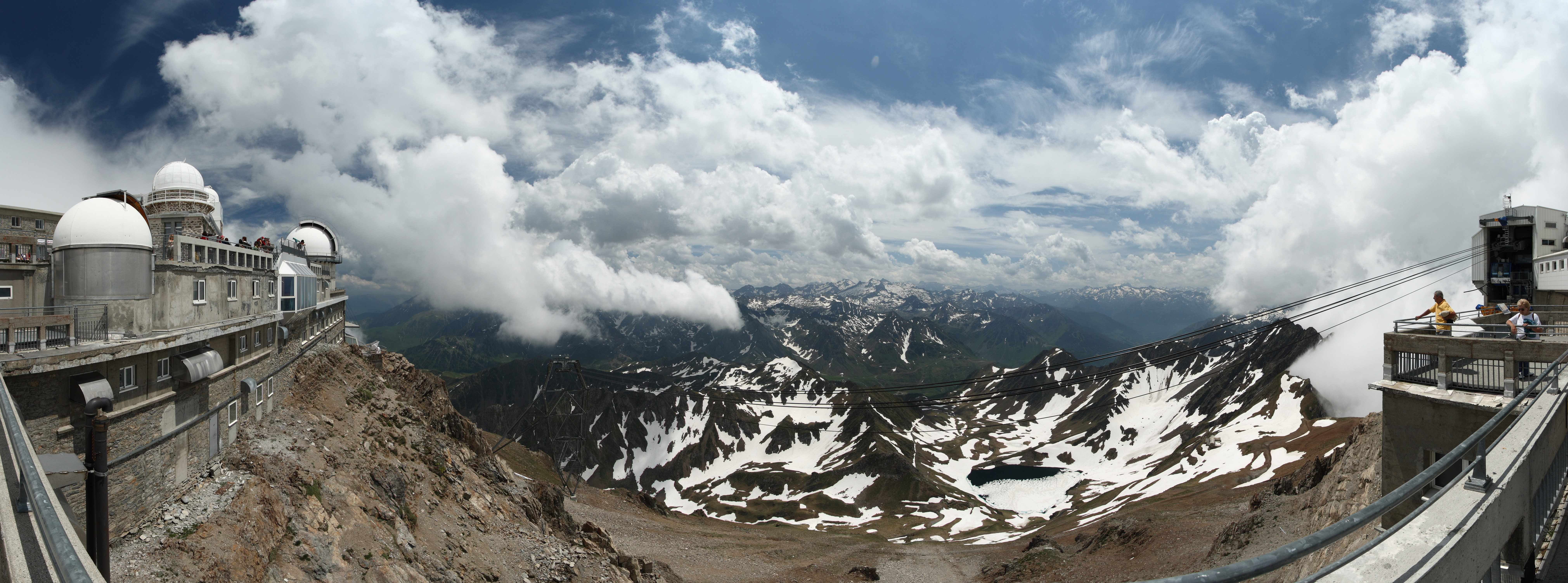 Looking toward south from the Pic du Midi de Bigorre observatory at alt. 2877m, during a very cloudy day. One can see on the right side the influence of high reliefs on weather, with the peaks pushing clouds upward. The picture also features the cable car that takes (most of) the tourists on this site.